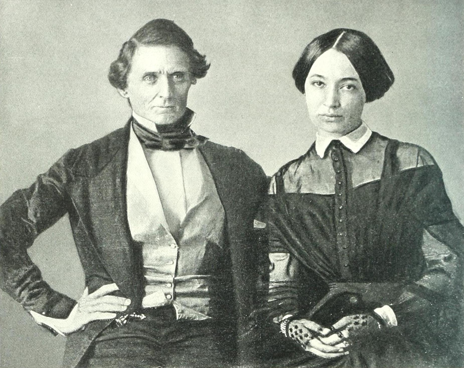 Title: The photographic history of the Civil War : thousands of scenes photographed 1861-65, with text by many special authorities Year: 1911 (1910s) Authors: Miller, Francis Trevelyan, 1877-1959 Lanier, Robert S. (Robert Sampson), 1880- Subjects: United States -- History Civil War, 1861-1865 Pictorial works United States -- History Civil War, 1861-1865 Publisher: New York : Review of Reviews Co. Text Appearing Before Image: ' Text Appearing After Image: I THE FUTURE PRESIDENT OF THE CONFEDERACY. WITH HIS WIFE THE FIRST OF SEVEN SCENES FROM THE LIFE OF JEFFERSON DAVIS This picture, made from an old daguerreotype, forms as true a document of Jefferson Davis humanside as his letter concerning Grant on page 290. Davis was horn in Kentucky the year before Lincoln.His college education began in that State. In 1S42 he entered West Point. Army service provedhis ability to command. In the Mexican War lie won distinction as colonel of the Firsl MississippiVolunteers by the famous reentering angle at Buena Vista. As Senator from Mississippi andSecretary of War under President Pierce, he became the accepted leader ot the Southern party intheir insistence on the doctrine of States rights. His unanimous election as President of the Con-federacy on Februarys, 1861, by the Congress at Montgomery. Alabama, was unsought. WhenLhe permanent government was established in 1862, he entered without opposition upon the sixyears term. When the stress of war t